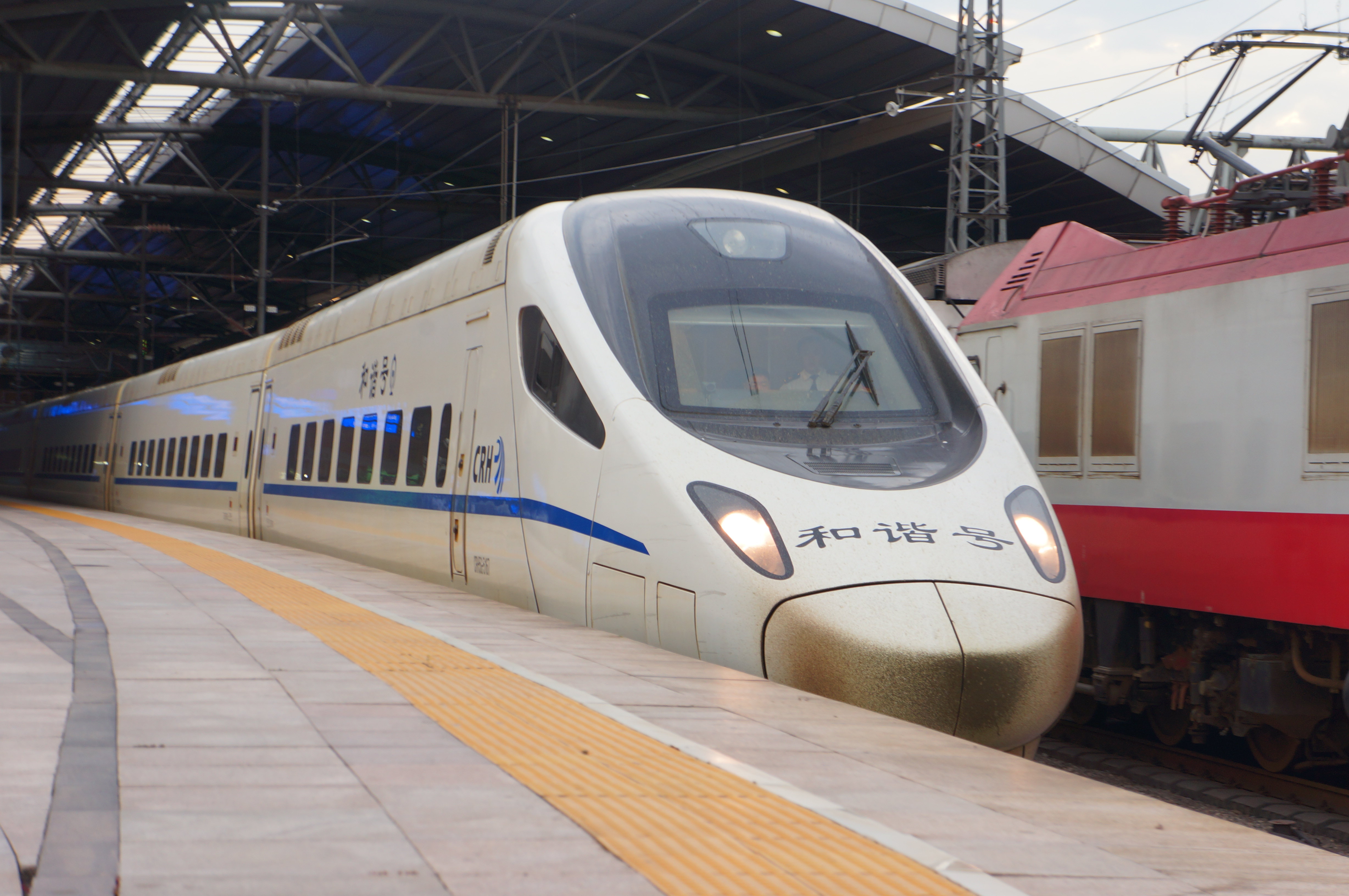 201606 D1 for Shenyang direction departs from Beijing Station